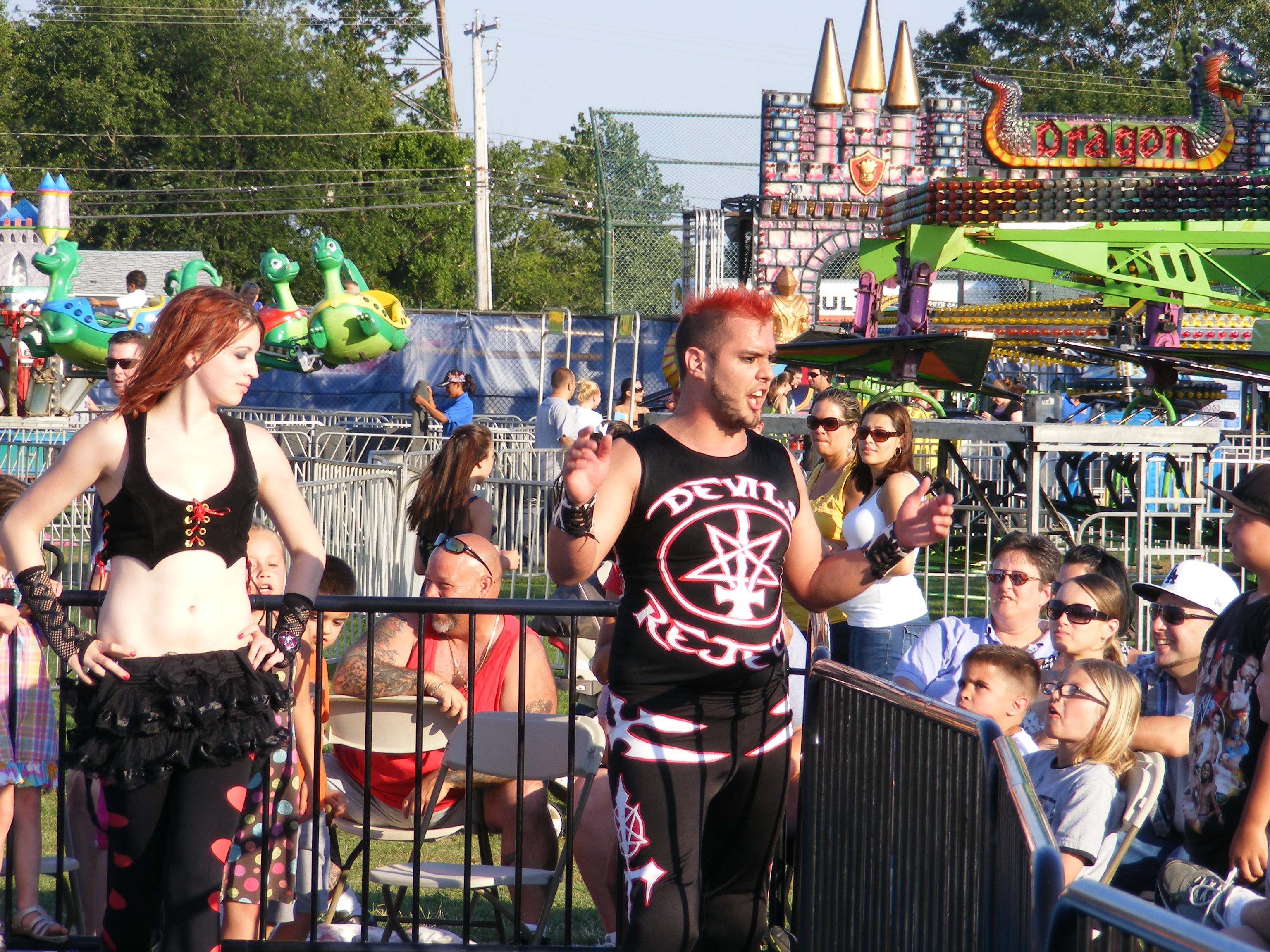 Brandon Webb and his valet Valkerie in East Providence during Power League Wrestling's "2011 Great Outdoors Tour".